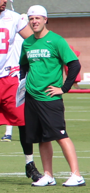 Atlanta Falcons training camp Aug 2015